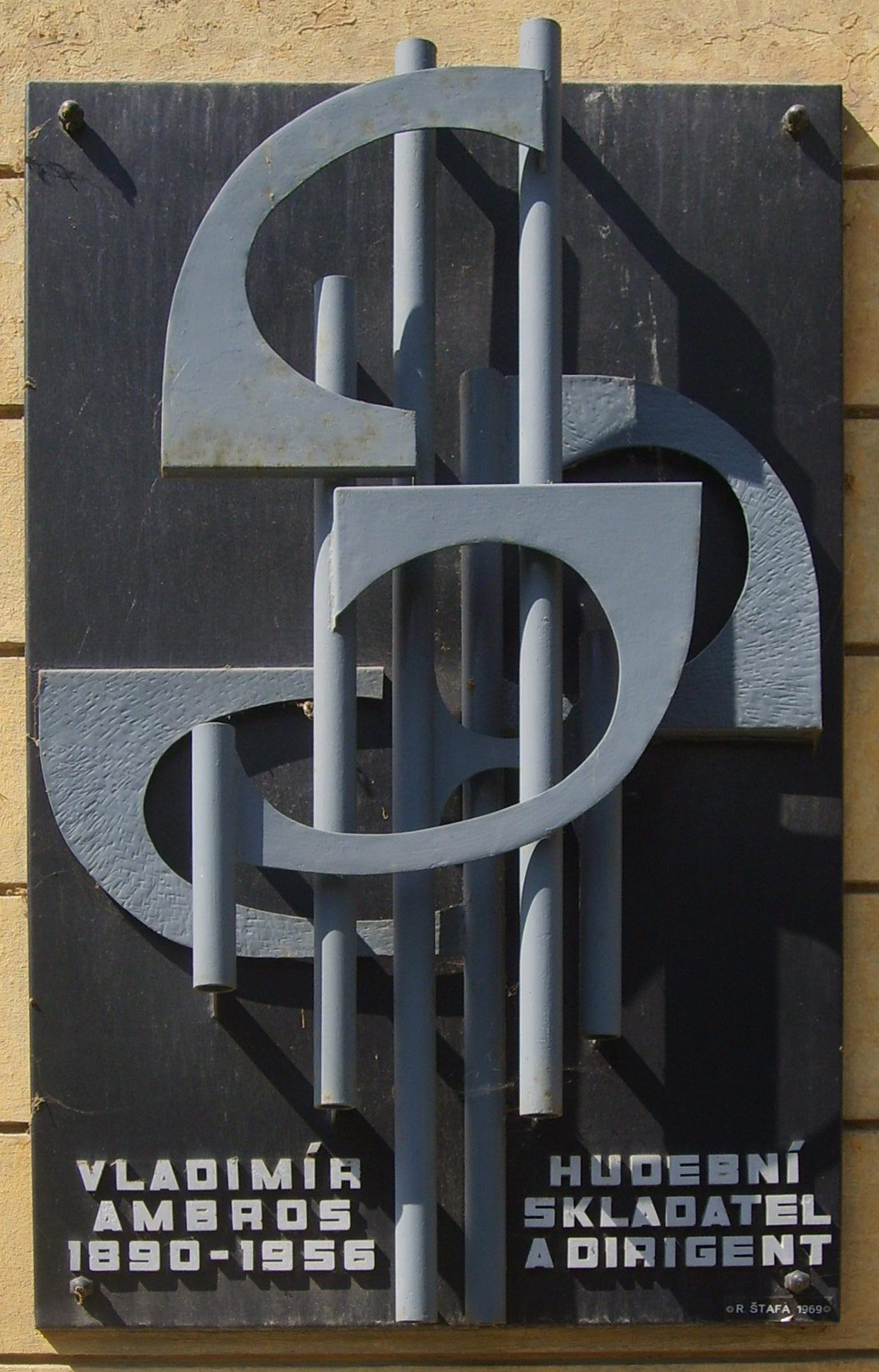 Memorial plaque of Vladimír Ambros (1890-1956), Czech composer. It is located in Prostějov, Czech Republic.